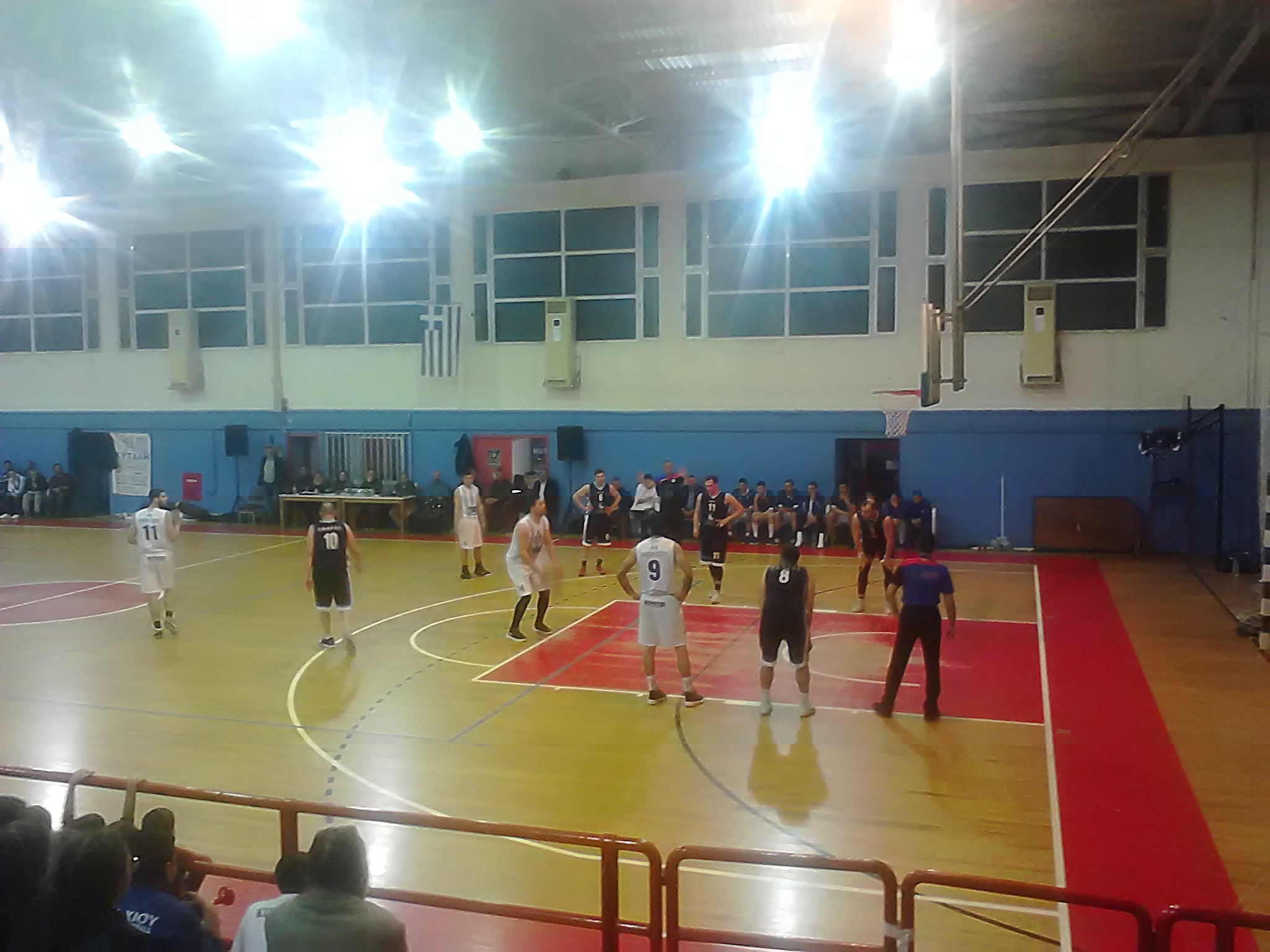 VAOL Chios vs Omiros Kallimasias, Chios Cup F4, 2018.